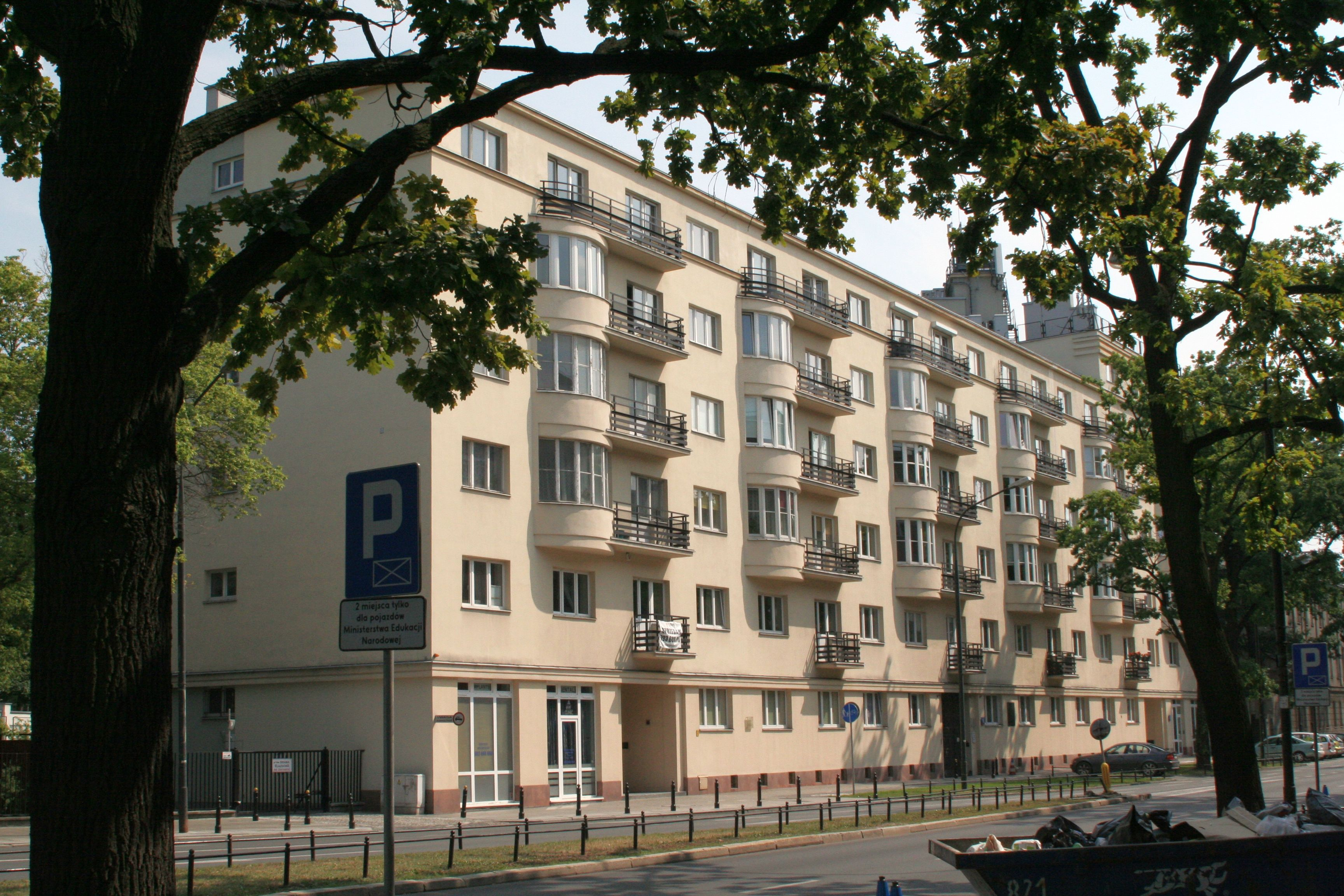 16 Szucha Alley, Warsaw.